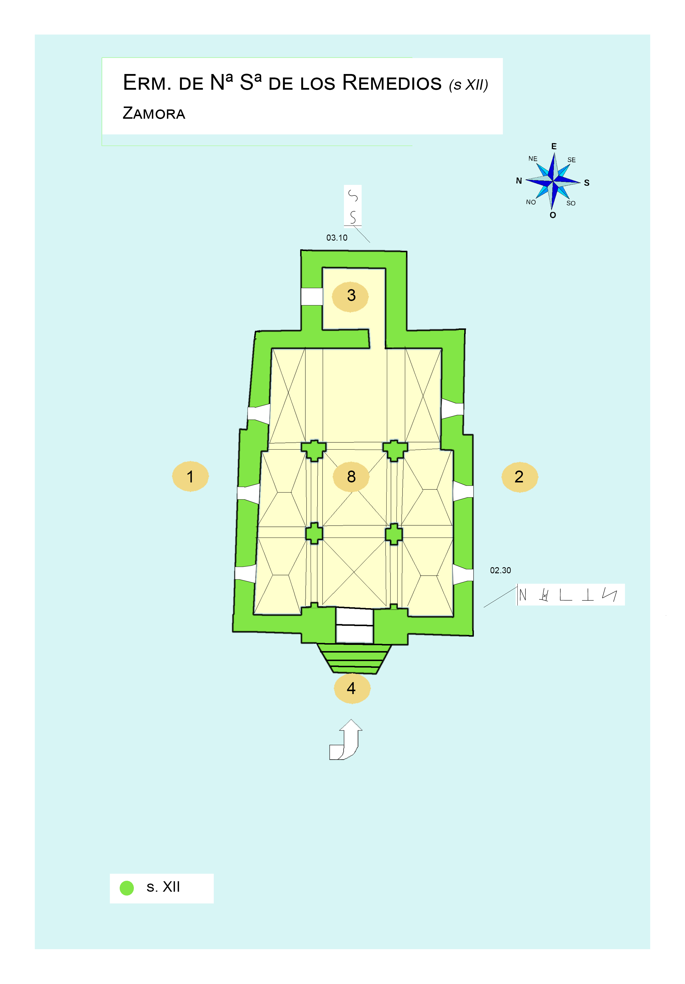 Nª Sª de los Remedios shrine, Zamora, Spain, romanesque s XII. Plan appro. and stonecutter mark.